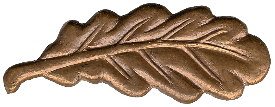 Mentioned in Dispatches oak leaf emblem